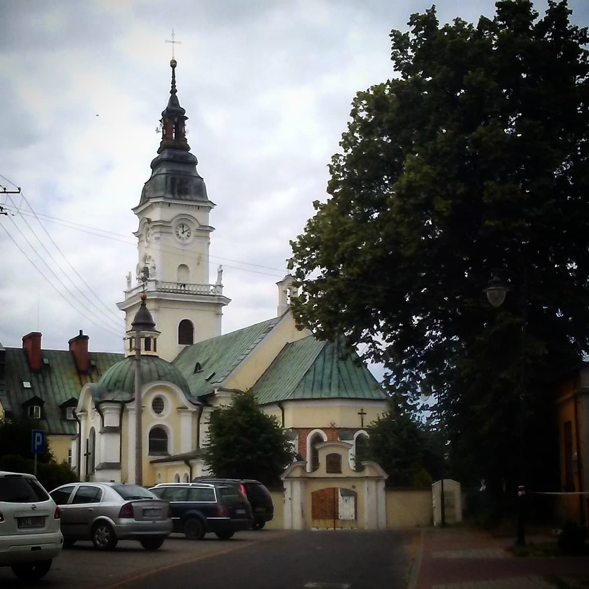 Church in Brdów, Poland